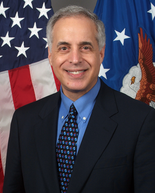 Official photo for Rabbi Arnold E. Resnicoff, taken for USAF public relations purpuses when he served as Special Assistant for Values and Vision to the Secretary and Chief of the U.S. Air Force, 2005-2006